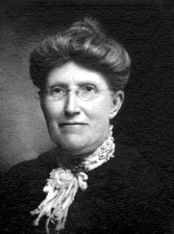 Indiana University of Pennsylvania's first preceptress, Jane E. Leonard. Portrait c. 1915 courtesy of IUP Special Collections, University Archives.